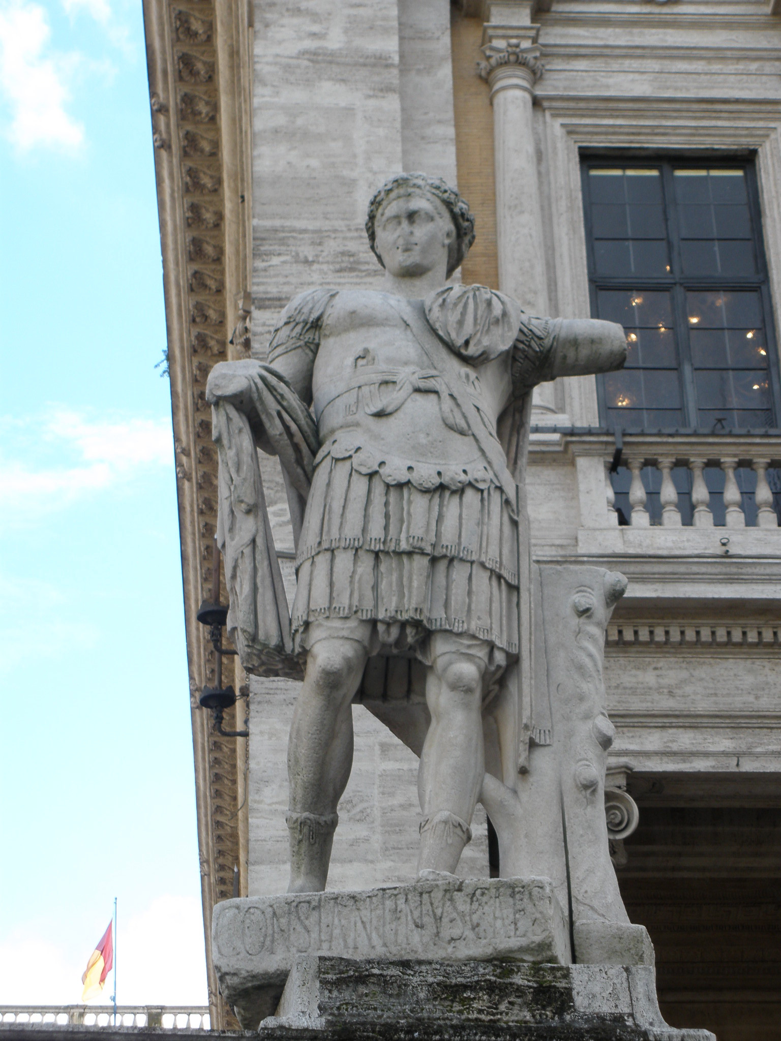 Statue of emperor Constantine II as caesar on top of the Cordonata (the monumental ladder climbing up to piazza del Campidoglio), in Rome.